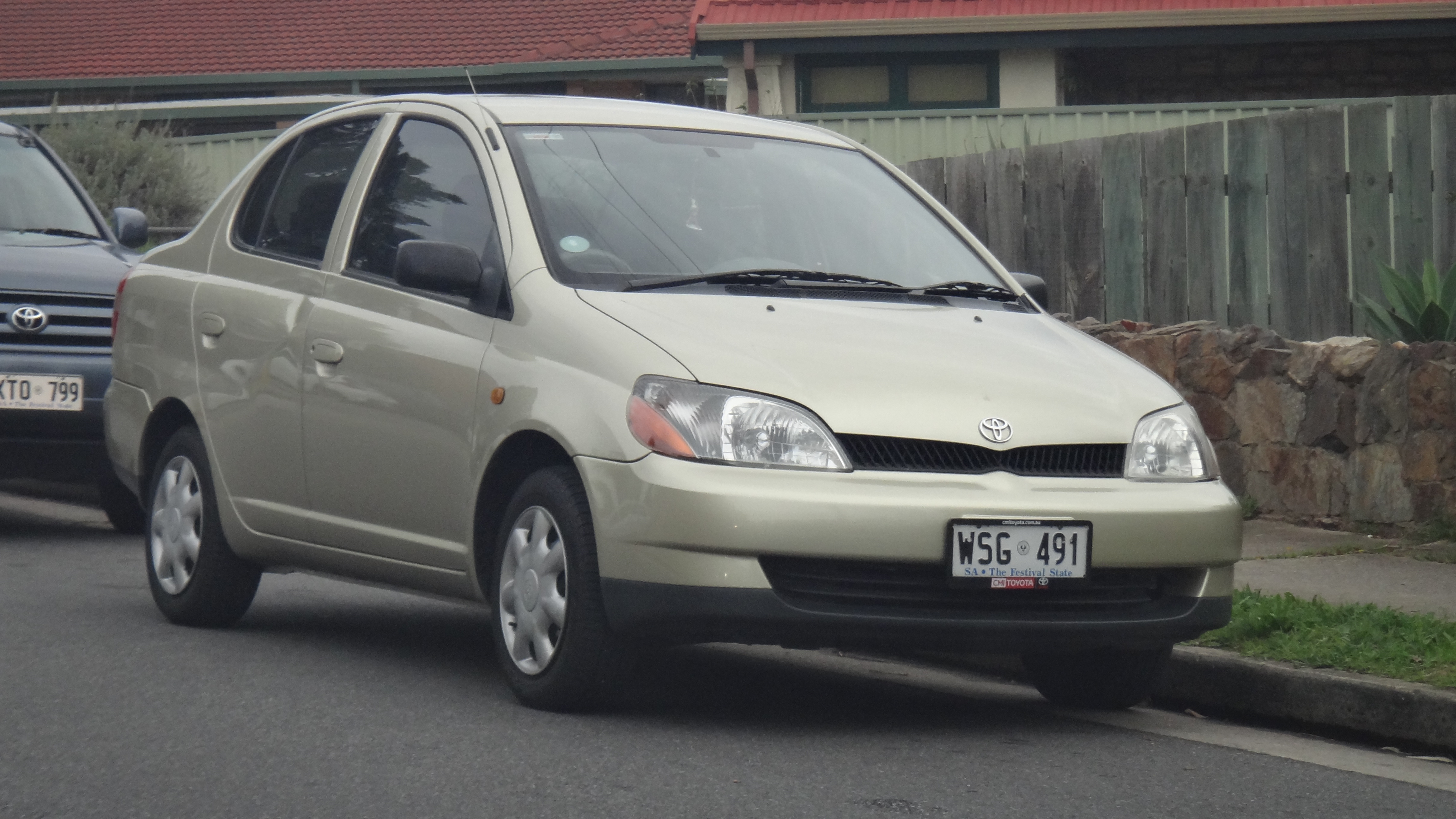 Obviously, this is the sedan version of the then Toyota Echo/Yaris hatch. Initially, the Yaris was sold in Australia as the Toyota Echo, which is what is was called in the US and Canada and was sold as a 3dr/5dr hatch and 4dr sedan. There was also a 2dr sedan, but that never made it to Australia and then there was of course, the Yaris Verso MPV, also not sold in Australia, but was mainly sold in Europe and the UK. The Echo sedan is definitely not much of a looker, but surprisingly, there seems to be a lot on the road.